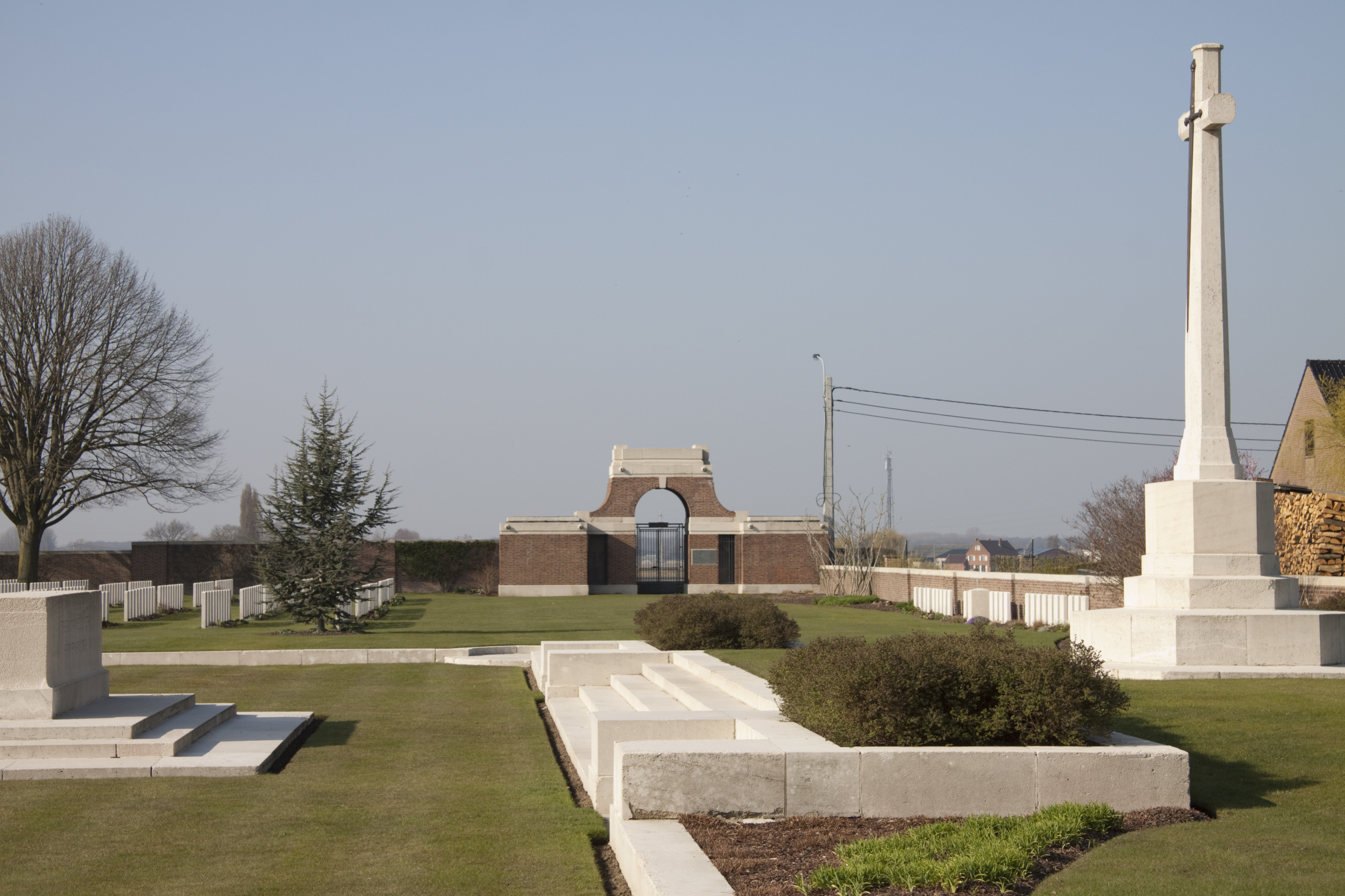 Poelcapelle British Cemetery